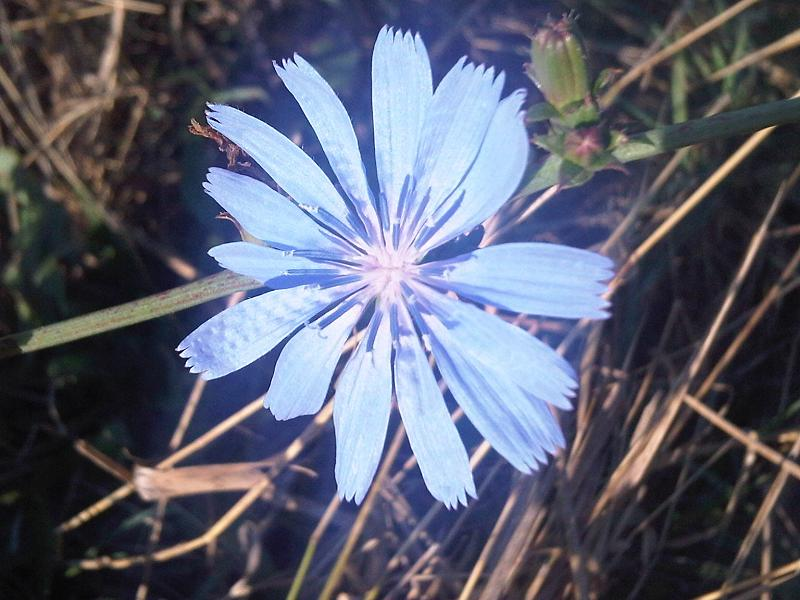 Common chicory (Cichorium intybus) flower near Szászrégen (Reghin), Transylvania.